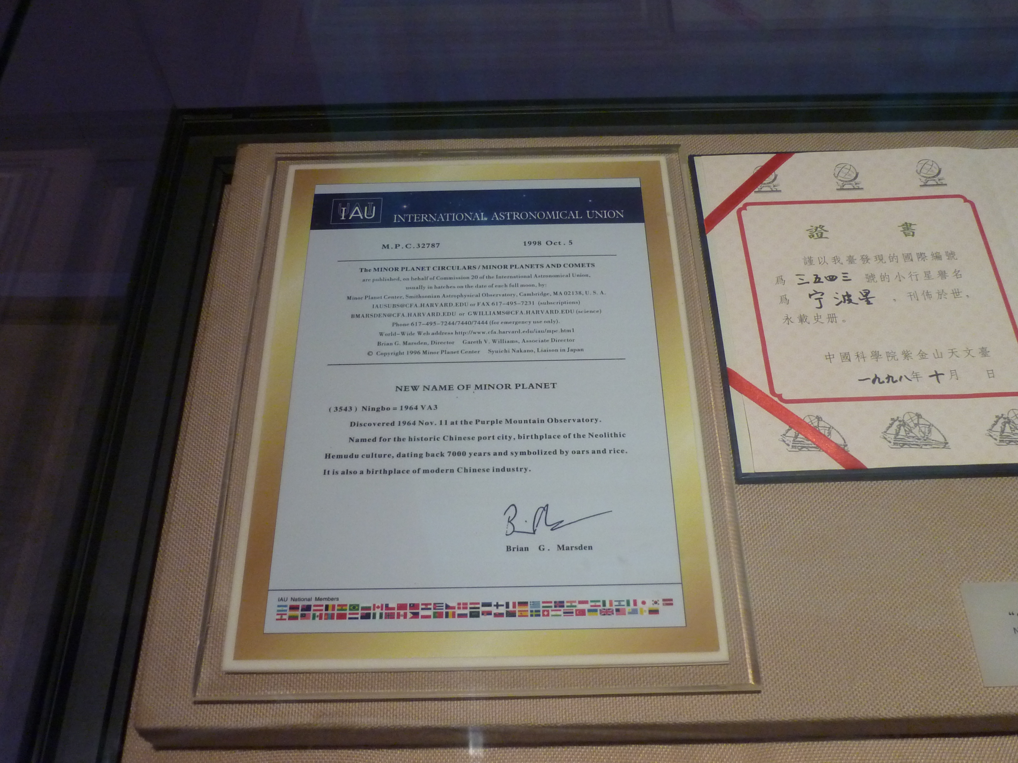 Name certification of the asteroid 3543 Ningbo, picture taken from Ningbobang Museum, China